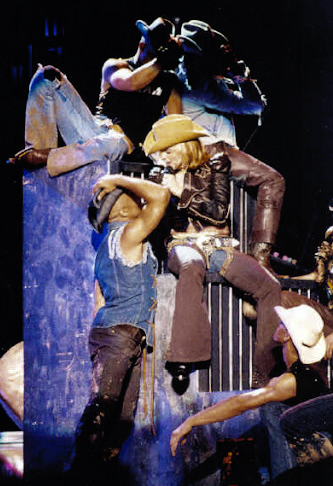 Picture taken at one of the concerts